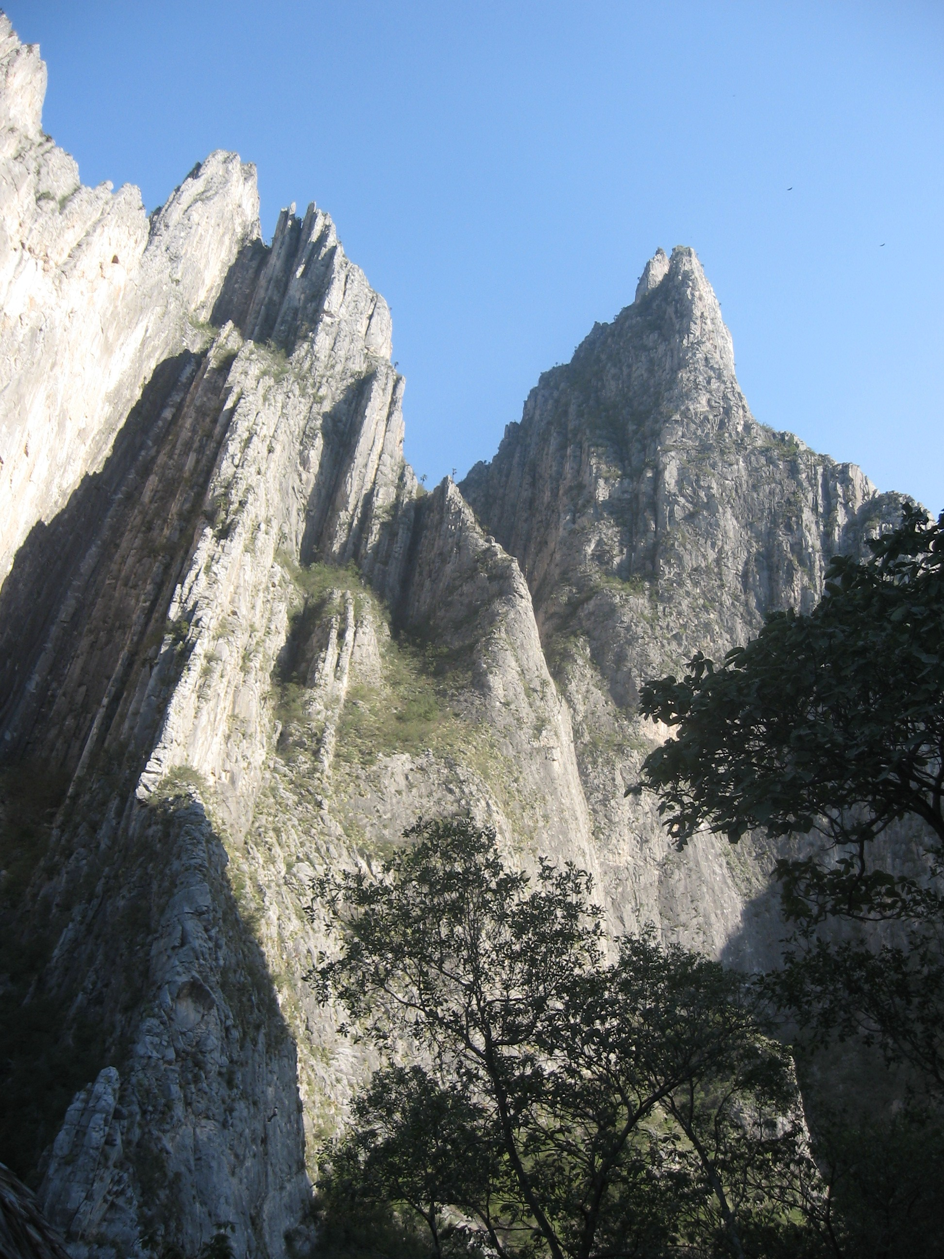 "Huasteca" Mountains in the municipality of Santa Catarina, Nuevo Leon State, México. Near Monterrey.